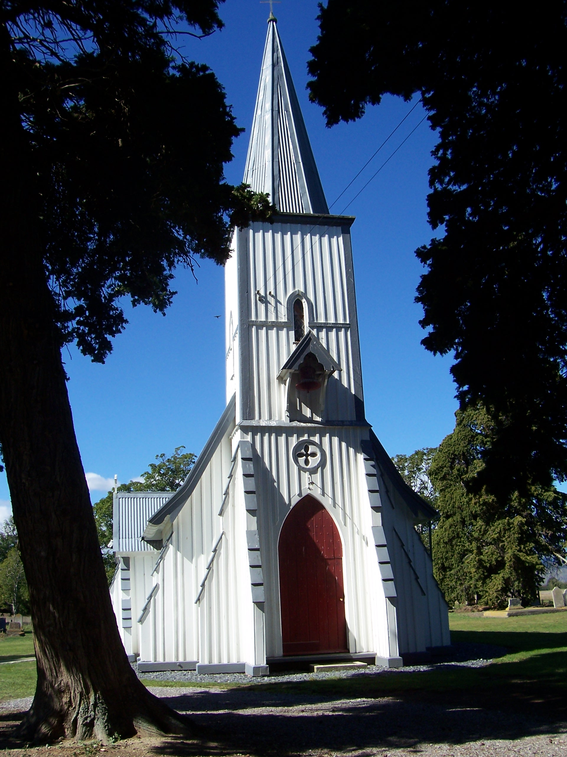 St Michael's, Waimea West, Anglican Church est 1843